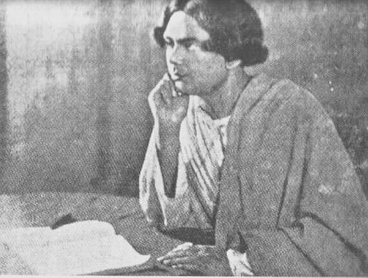 Kazi Nazrul at Krihnagar, Bangladesh (1927) Uploaded by Rahat Rahim